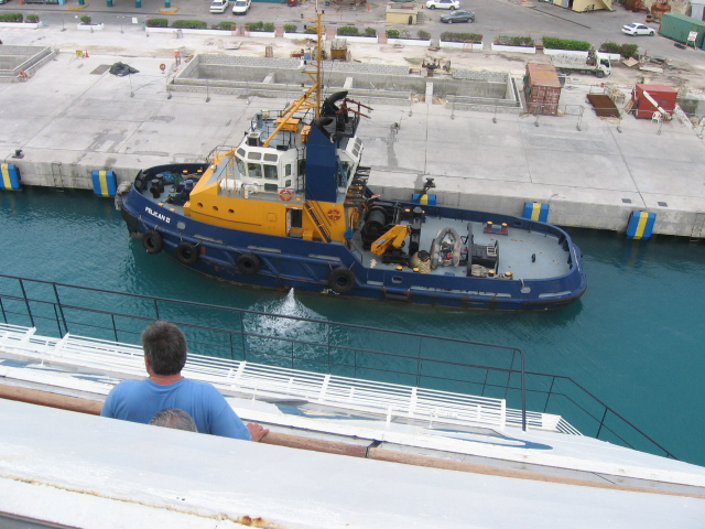 Tugboat "Pelican II" in Barbados flag colors; Bridgetown, Barbados. Taken aboard the m/s Carnival Destiny.